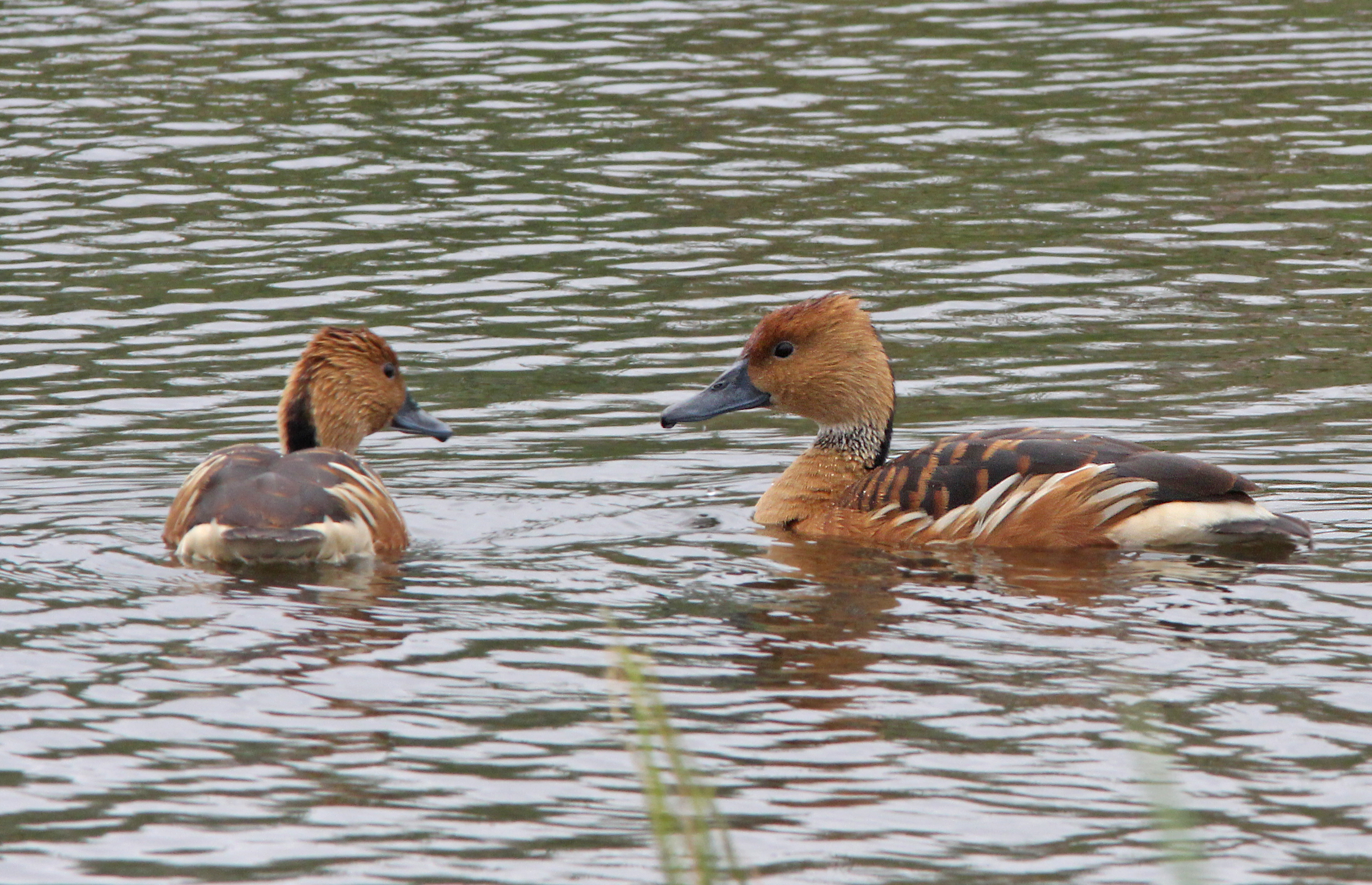 ABA AREA BIRDS: My Photo "Life List"